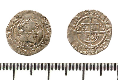 A hammered silver coin of medieval date. Penny of Henry VIII. Durham Ecclesiastical mint under Bishop Thomas Wolsey. AD 1529. The coin surfaces are slightly worn. It measures 14.3mm diameter by 0.2mm thick and weighs 0.68g.